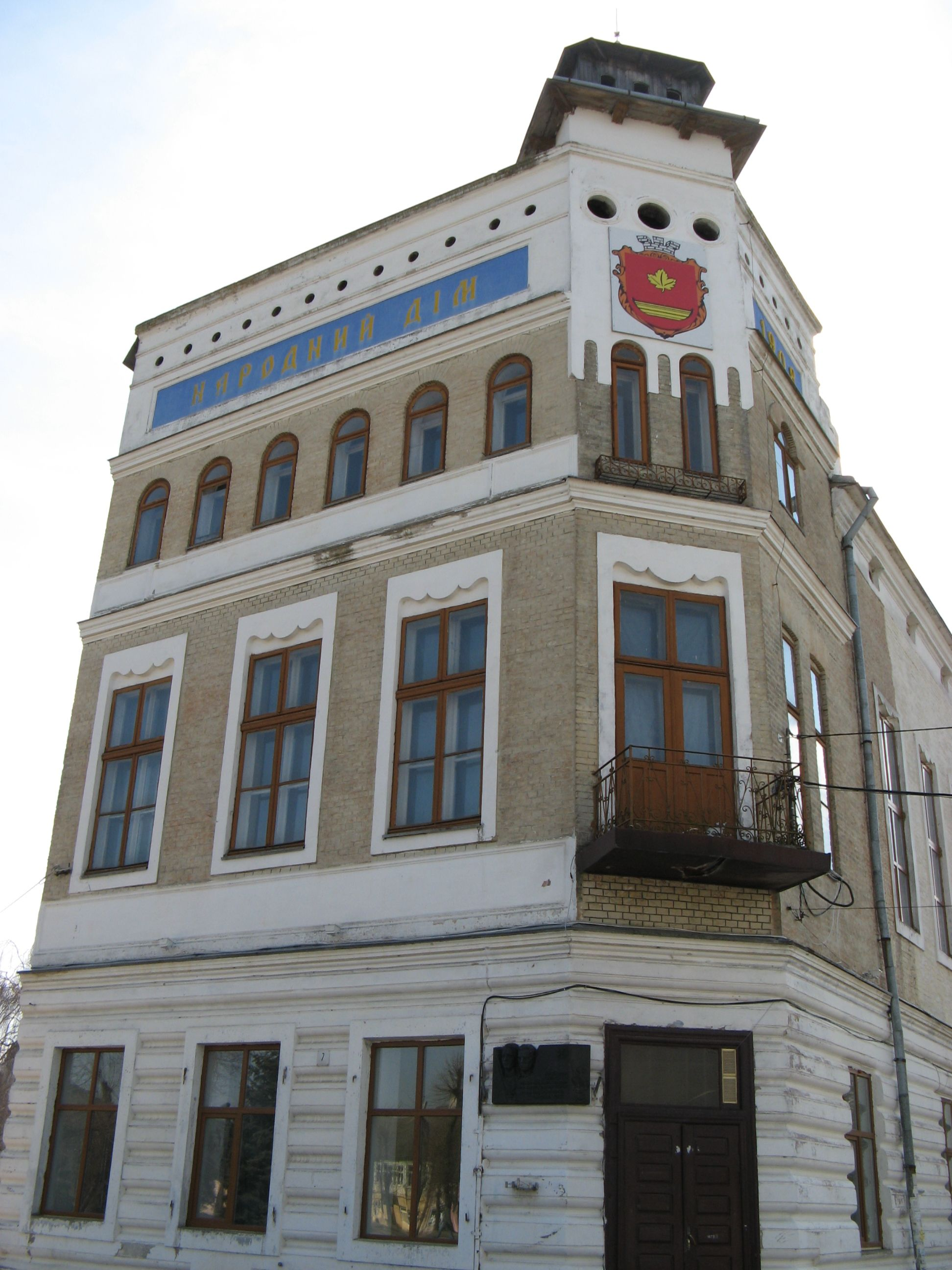 Yavoriv (National House)